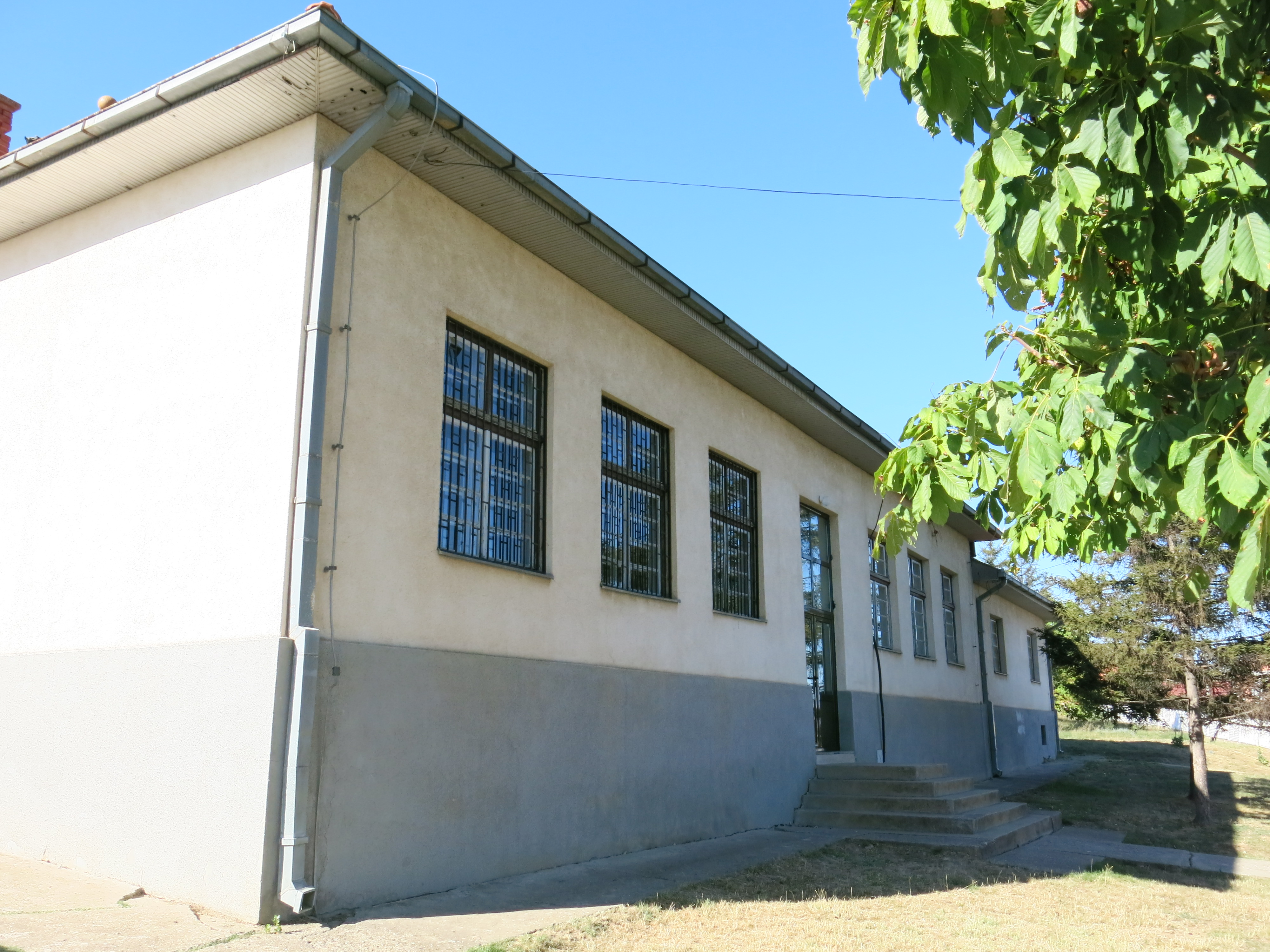 Suvodol, Elementary school Svetitelj Sava